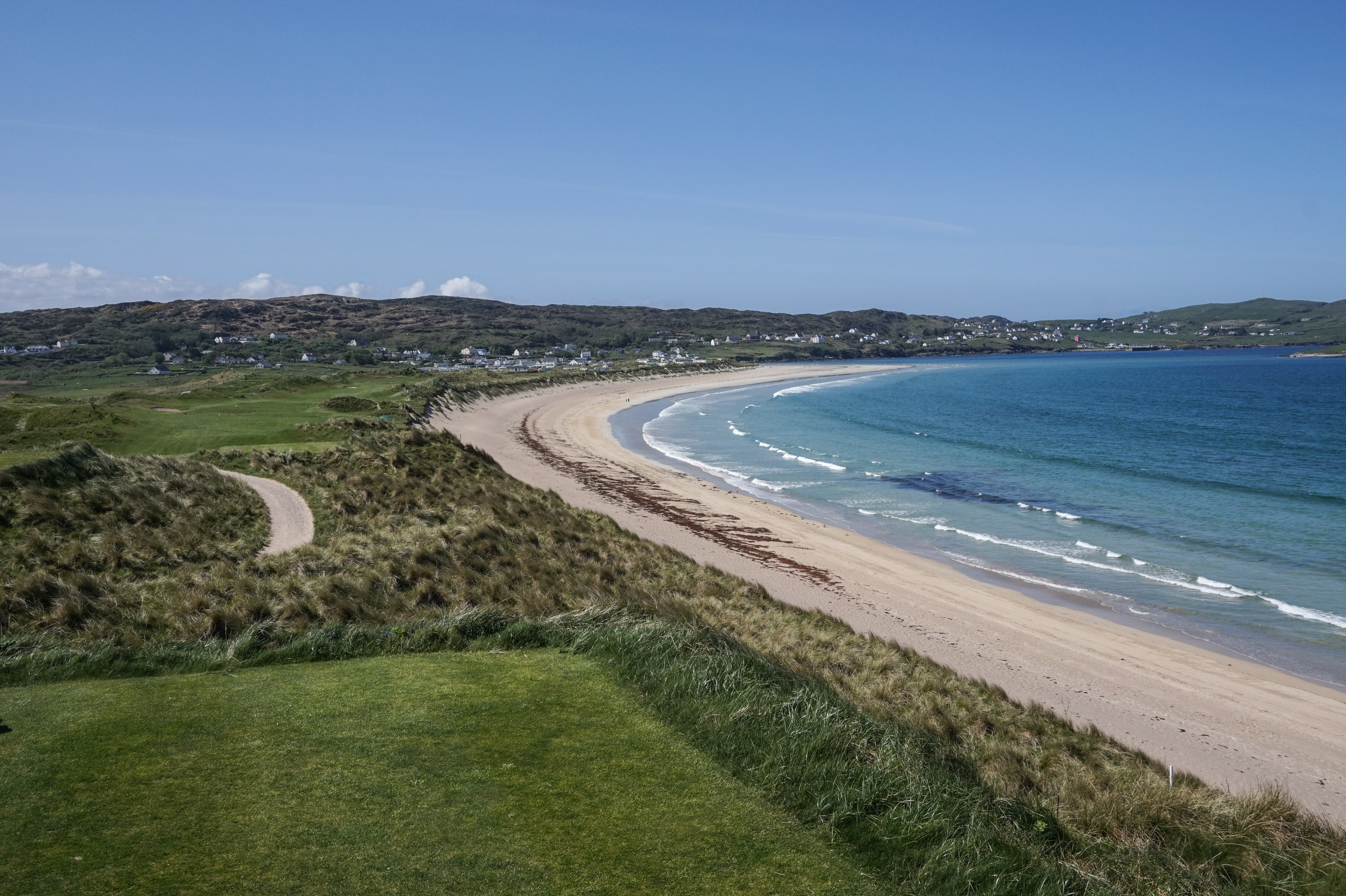 Narin & Portnoo Golf Club, County Donegal, Ireland